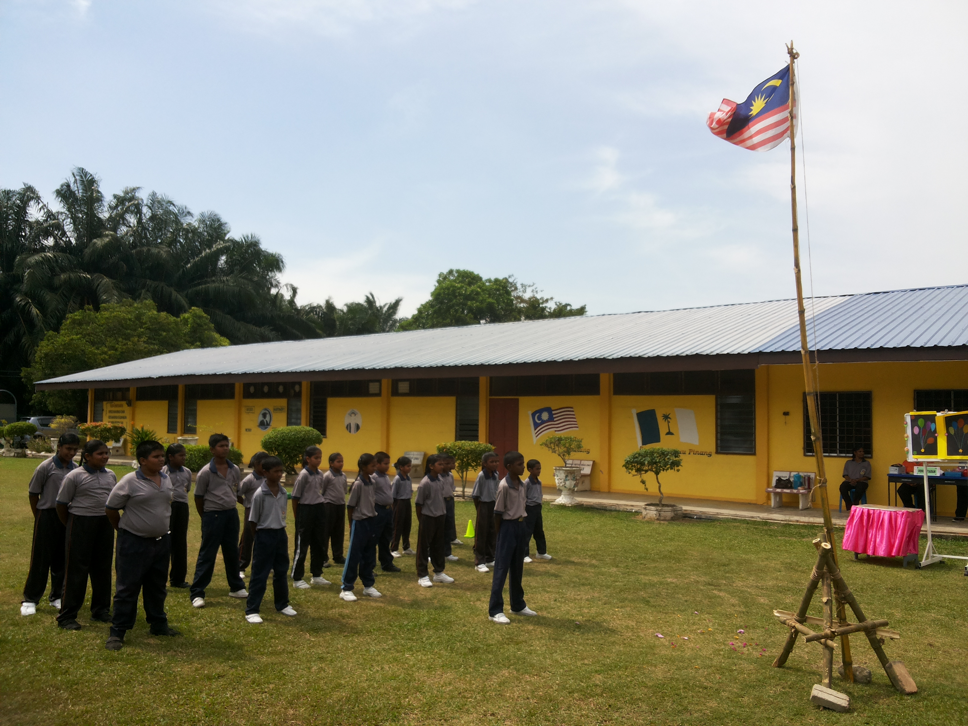 பள்ளியின் தோற்றம் 2014